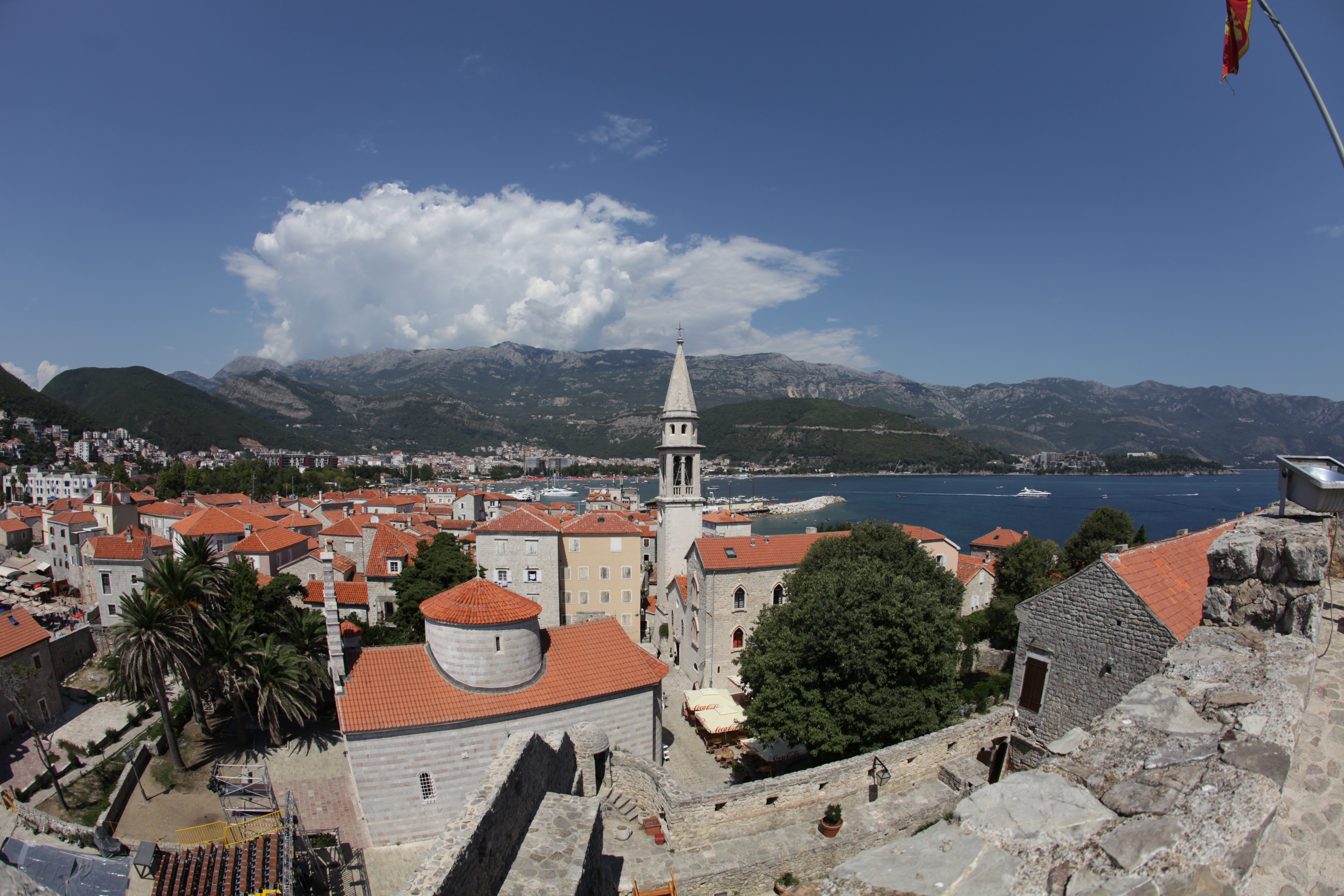 View on the top of the old town of Budva.